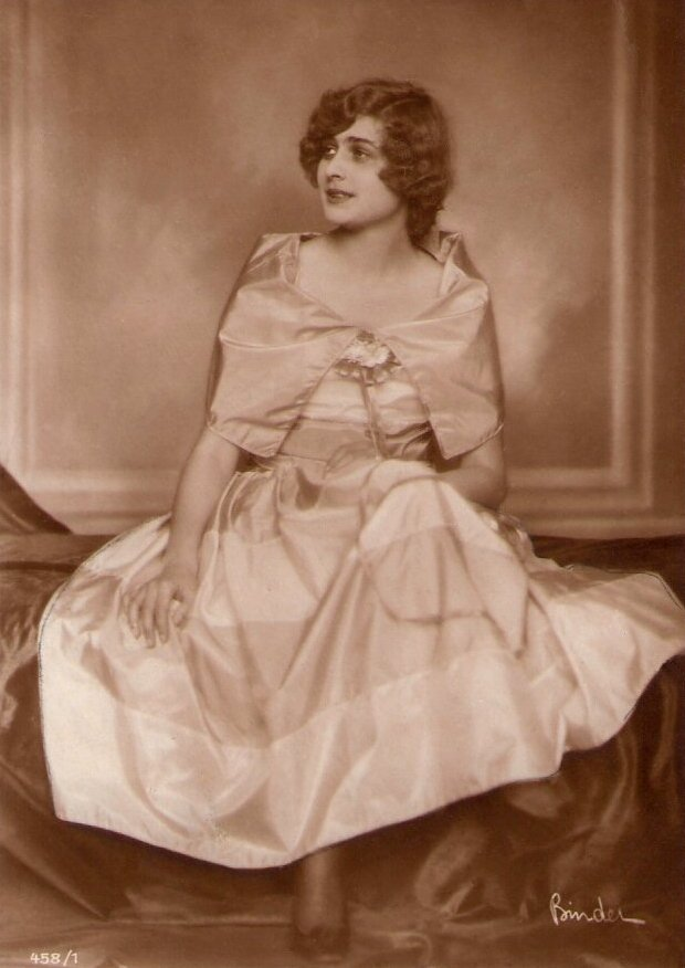 Lee Parry